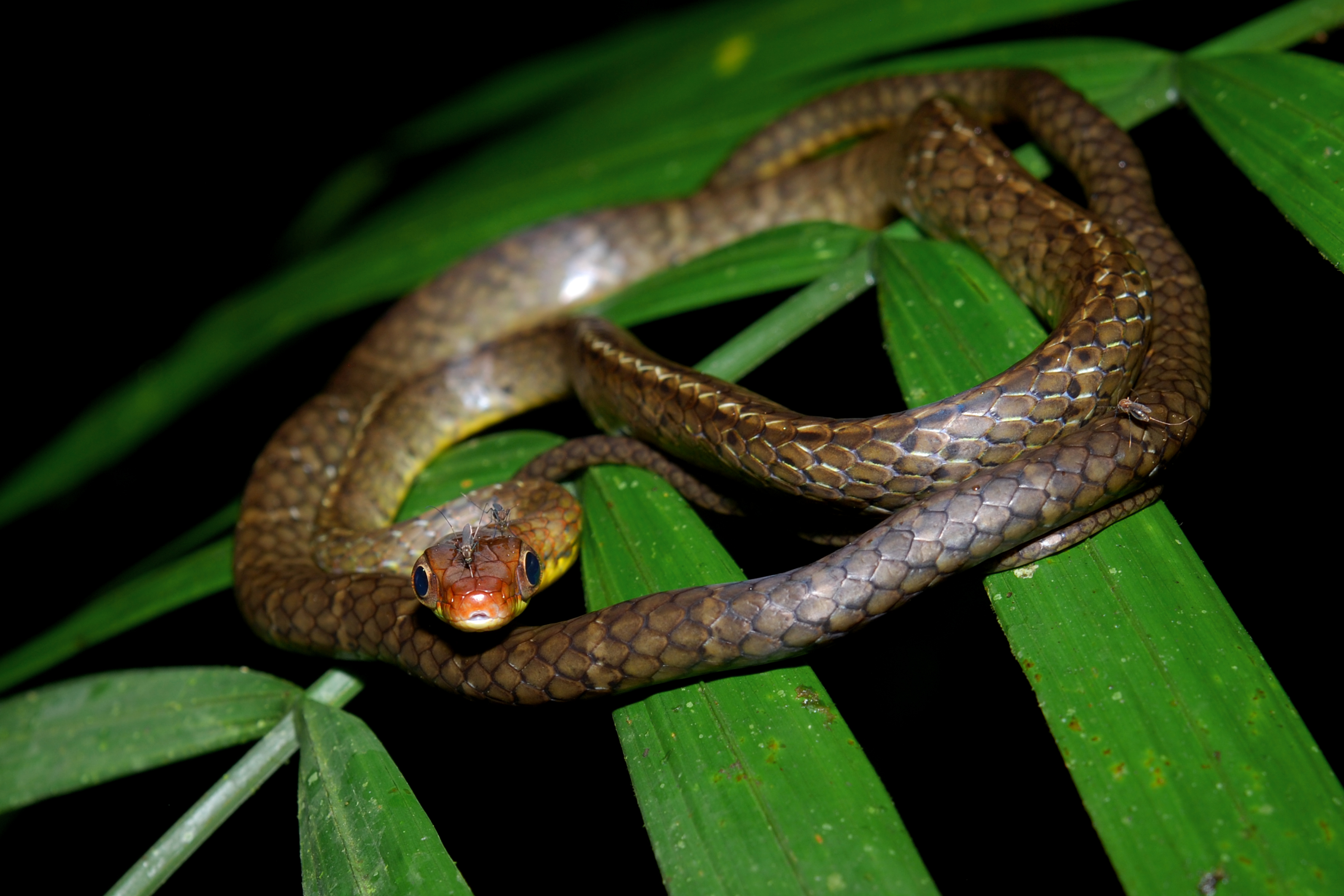 A Smooth Machete Savane, also known as the Wagler's Sipo (Chironius scurrulus), in Yasuni National Park, Ecuador. Several feeding mosquitoes are also visible, having pierced the vulnerable skin between the snake's scales.